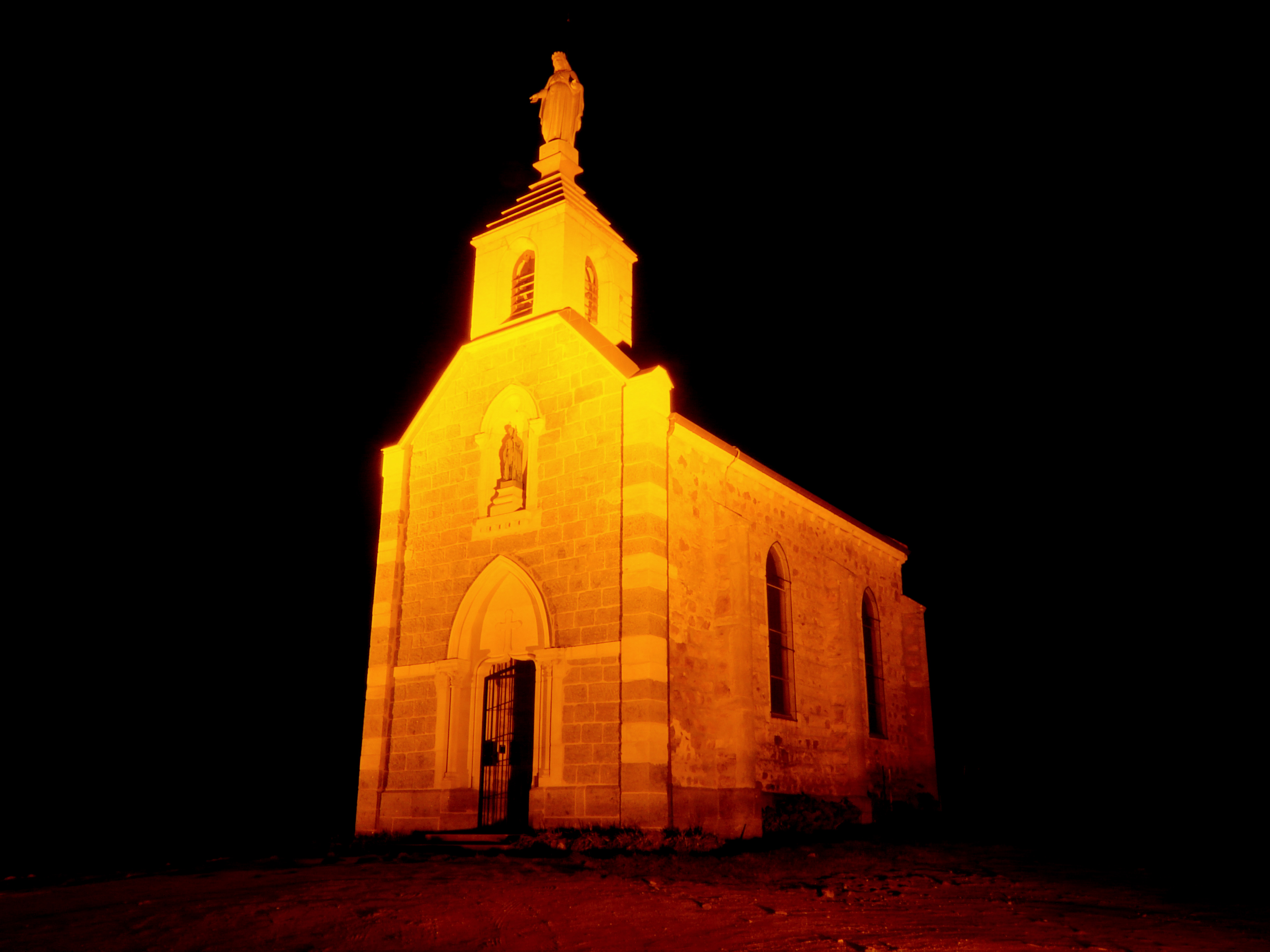 The "Chapelle de la Madone", dominating the small city of Fleurie, France, taken by night.